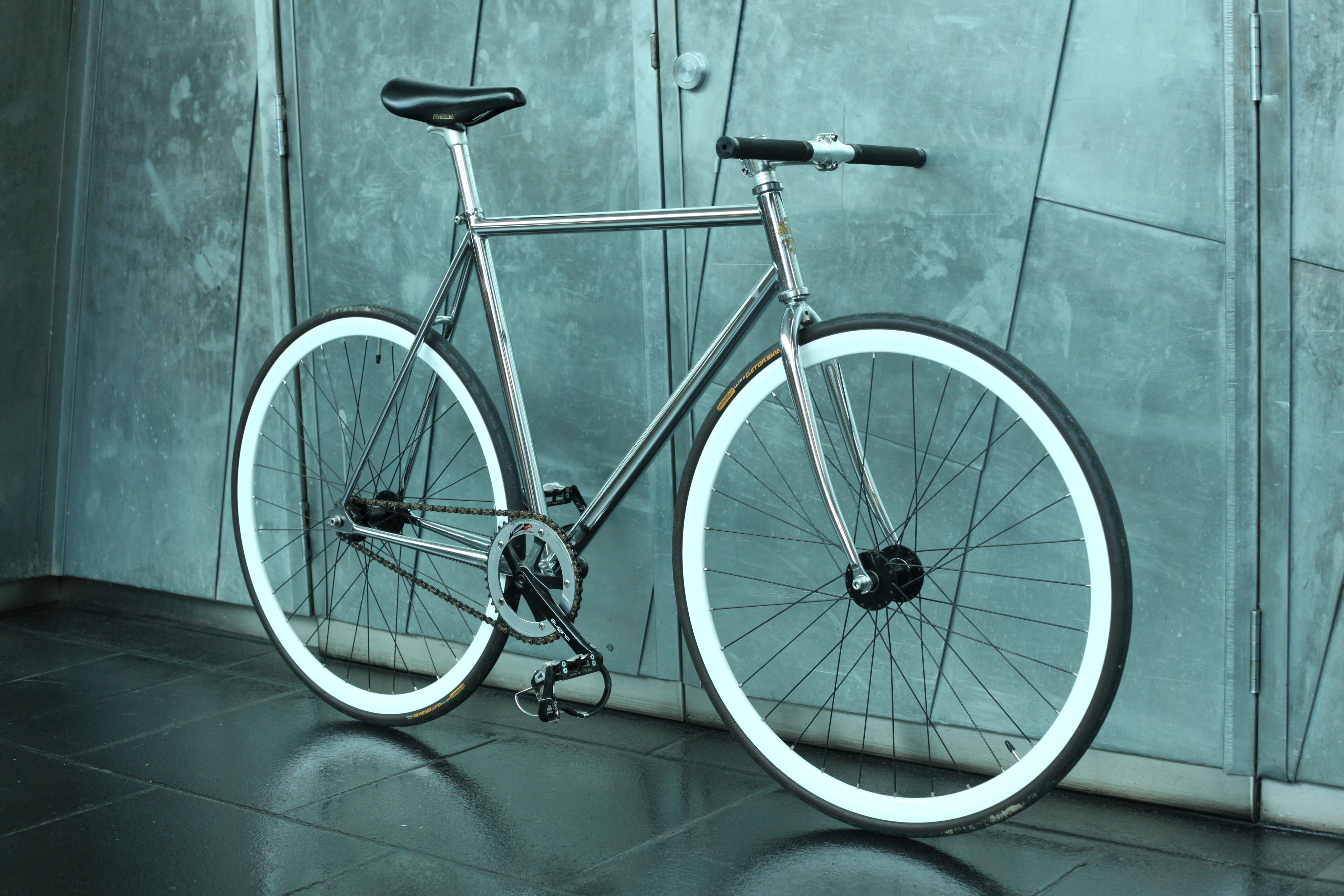 Bianchi Pista, polished finish. Seen at Federation Square, Melbourne. 30.08.2009